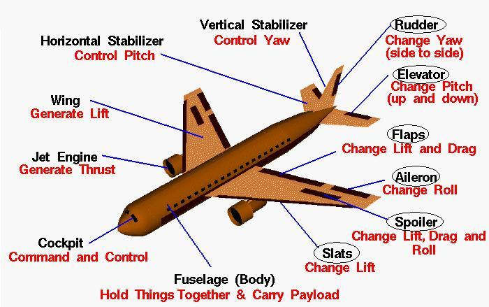 Parts of an airplane. The original image is a NASA web page located at [1].